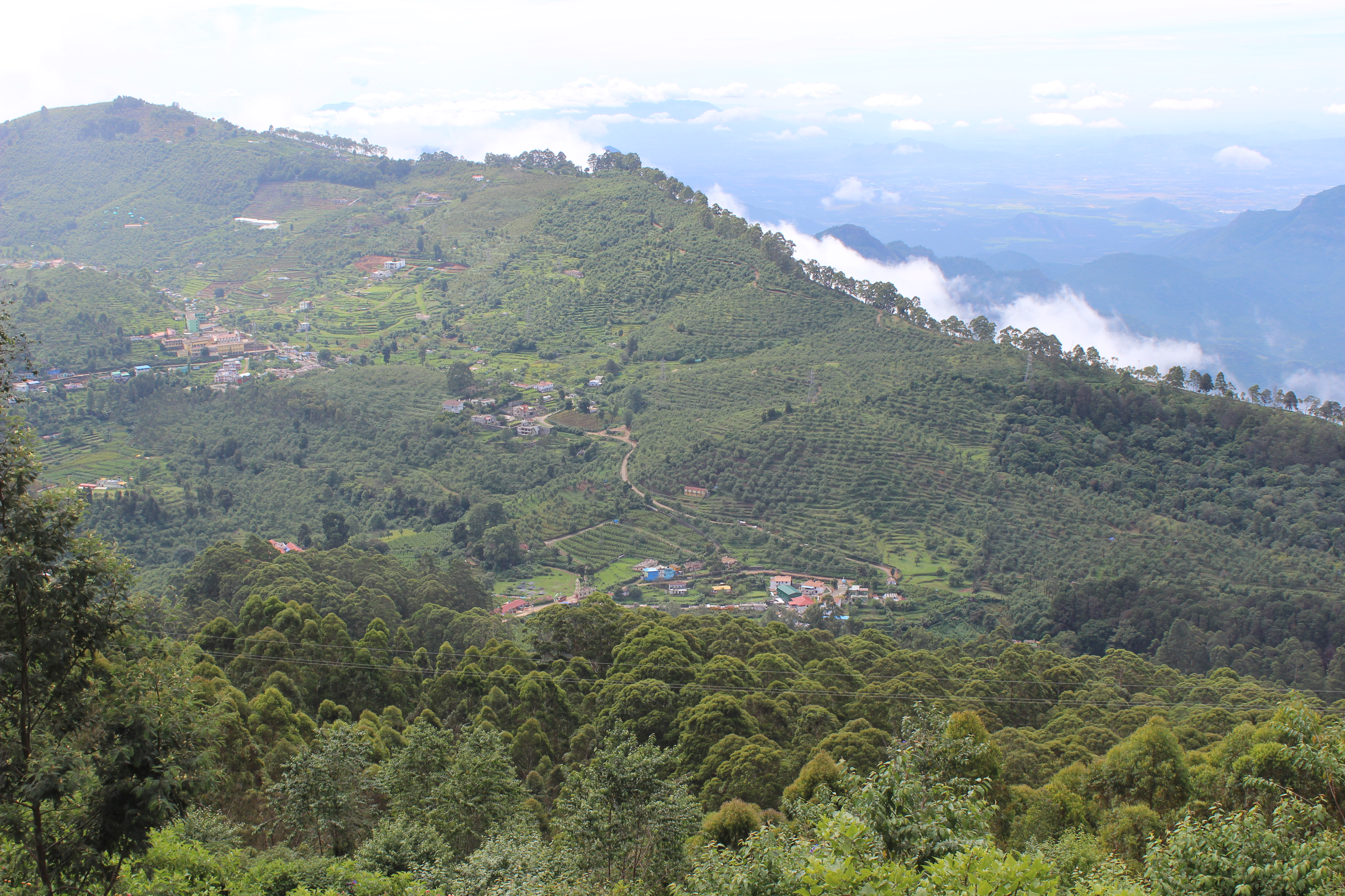 Hillview of Kodaikanal from Coaker's Walk